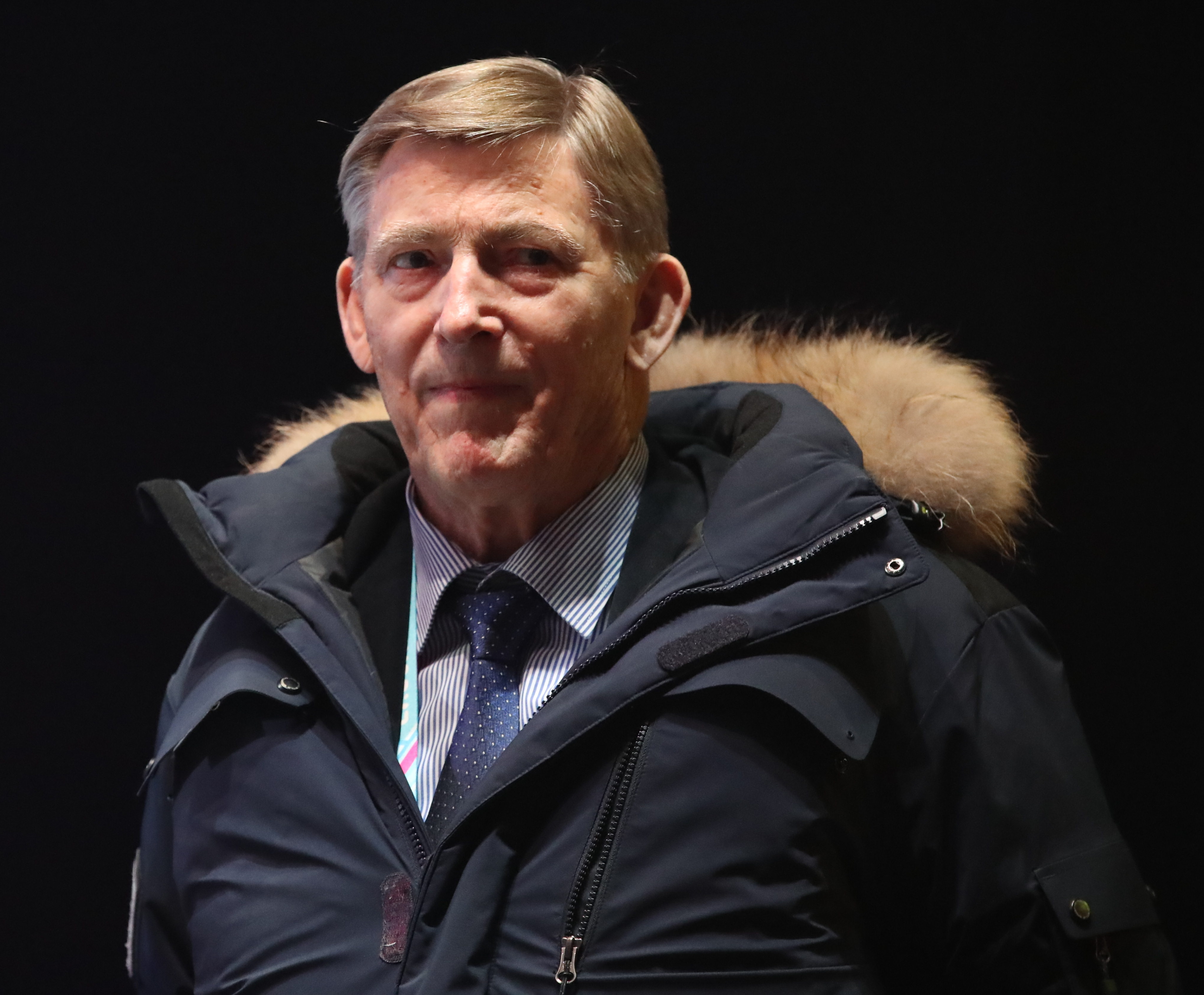 Medal Ceremony Day 3, 2020 Winter Youth Olympics in Lausanne